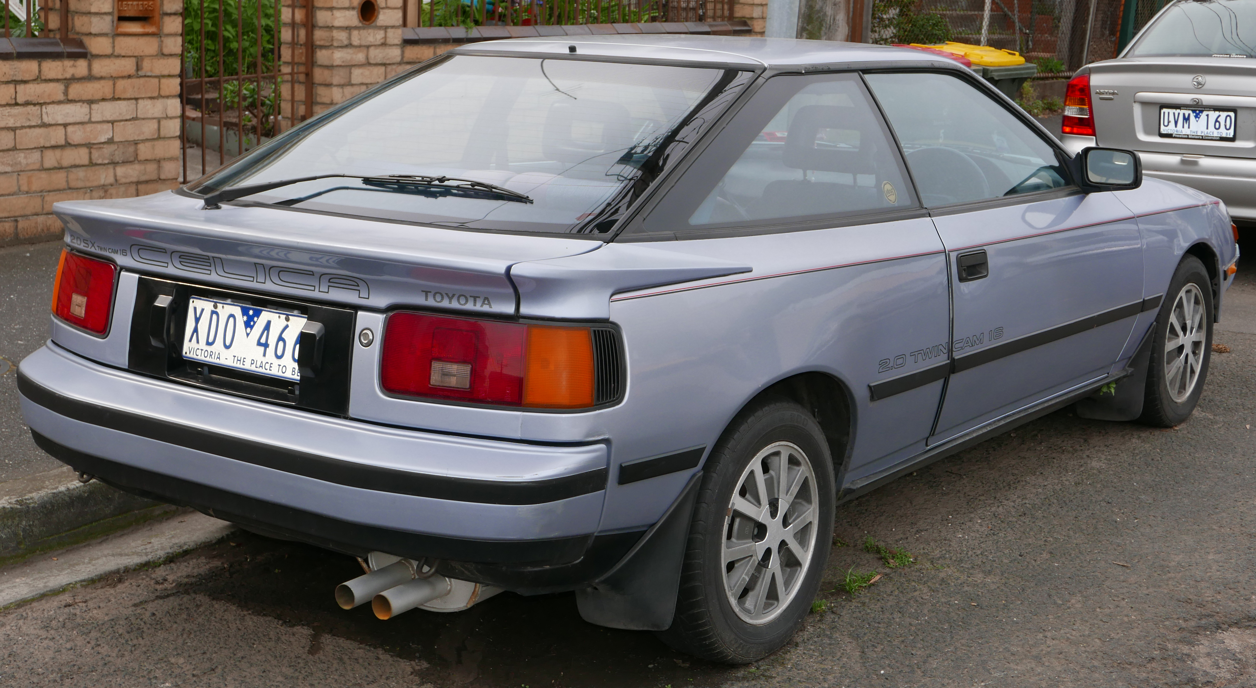 1987 Toyota Celica (ST162) SX liftback. Photographed in Flemington, Victoria, Australia. Vehicle registration enquiry results Jurisdiction Victoria Registration XDO466 Chassis code Not available Engine code 3S0284498 Compliance date Not available Year of manufacture 1987